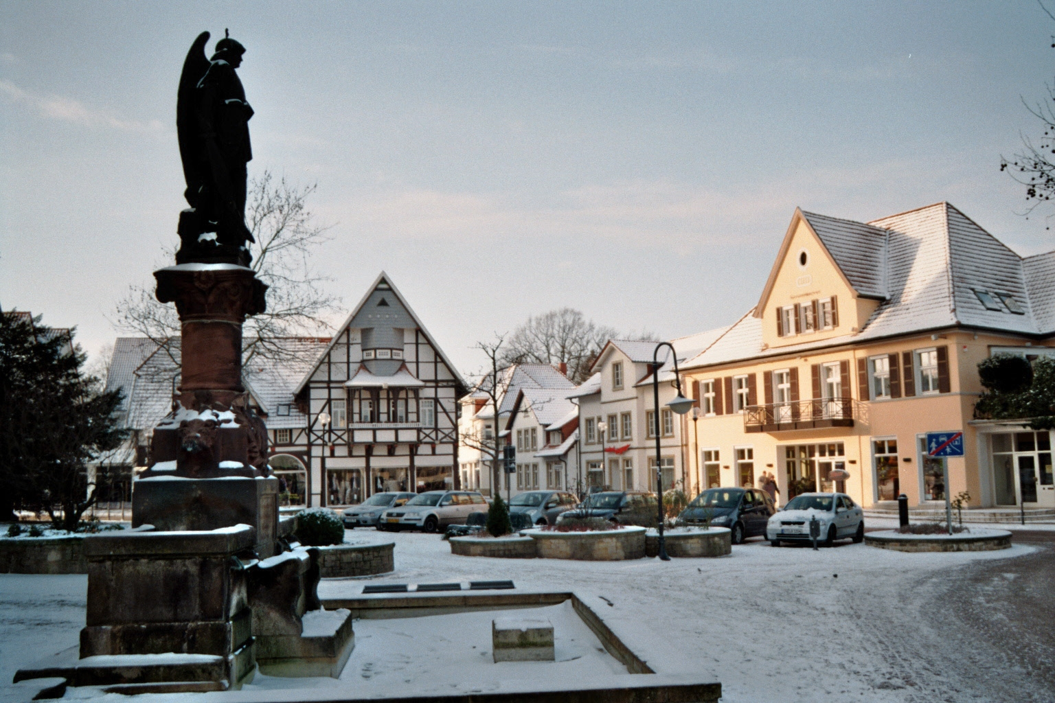 Market square of Mettingen, Kreis Steinfurt, North Rhine-Westphalia, Germany.